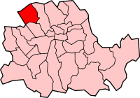 Map of the Metropolitan borough of Hampstead, former County of London.